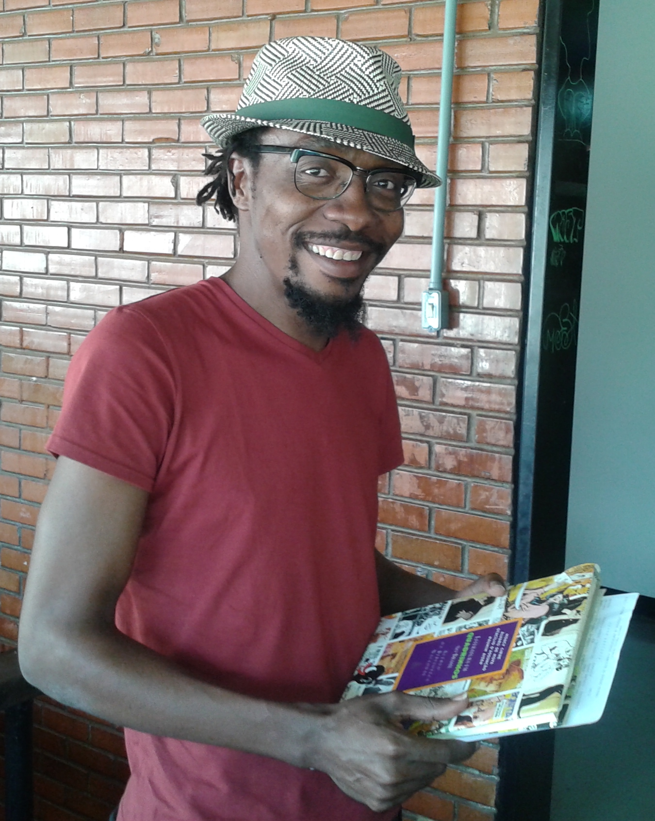 Ramón Esono Ebalé (who writes under the pen name Jamón y Queso), Equatorial Guinean comic artist